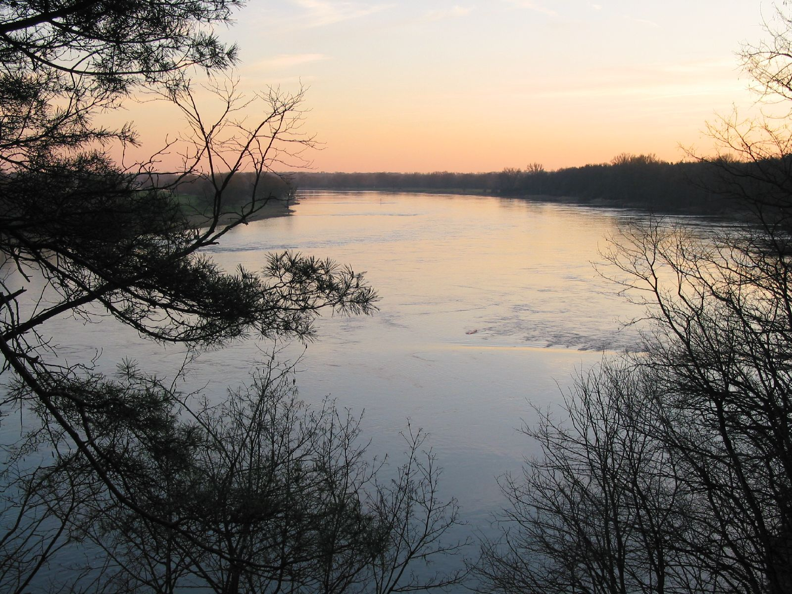 Elbe river in Wittenberg, Germany.